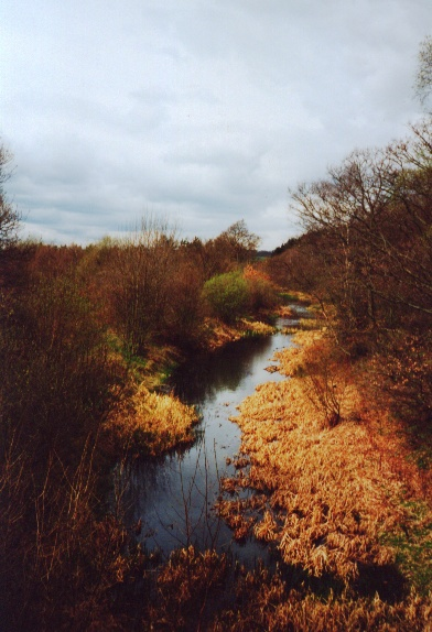 Part of Barnsley canal in Haw Park Woods near Wakefield.